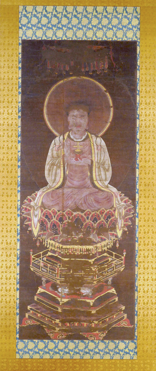 “Jesus Christ as a Manichaean Prophet”, early 13th century. The figure can be identified as a representation of Jesus Christ by the small gold cross that sits on the red lotus pedestal in His left hand. Ink, colour, gold, and gold leaf on silk, 153.4 x 58.7 cm.Reference (in traditional Chinese)